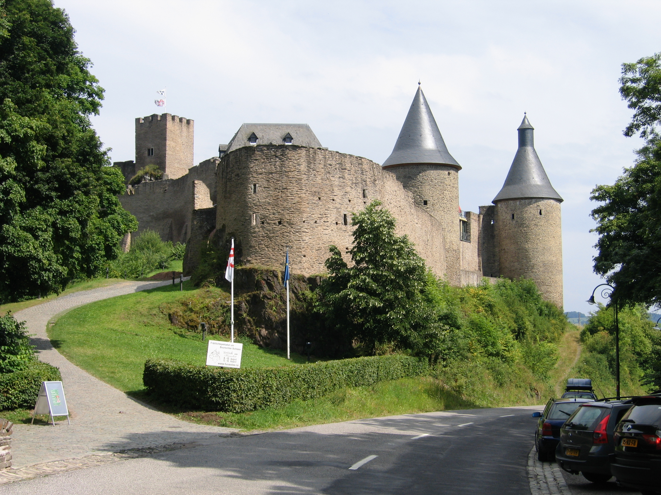 North-West Bastion (built after 1477) and approach to the gates of Castle Bourscheid. Also visible (to the right) two towers of the South-Western lower-Bailey (built in the 14th century), the roof of the main gatehouse (centre) and the Bergfried (left).